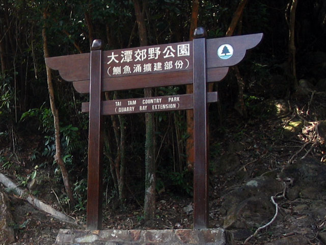 Photo of Tai Tam Country Park (Quarry Bay Extension)